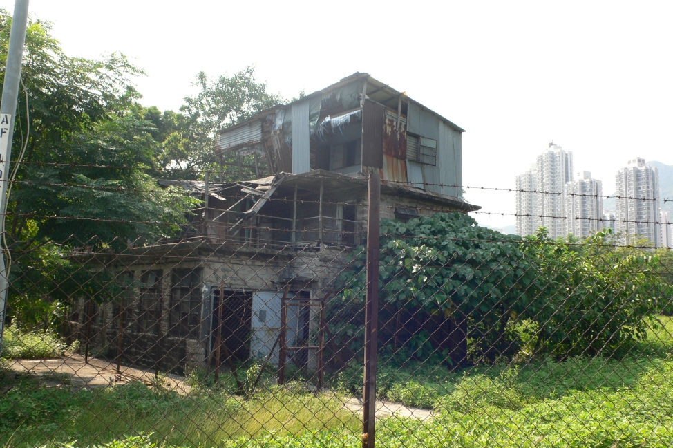 The Old House of Famous Actor Roy Chiao in Tai Hum Village, Hong Kong